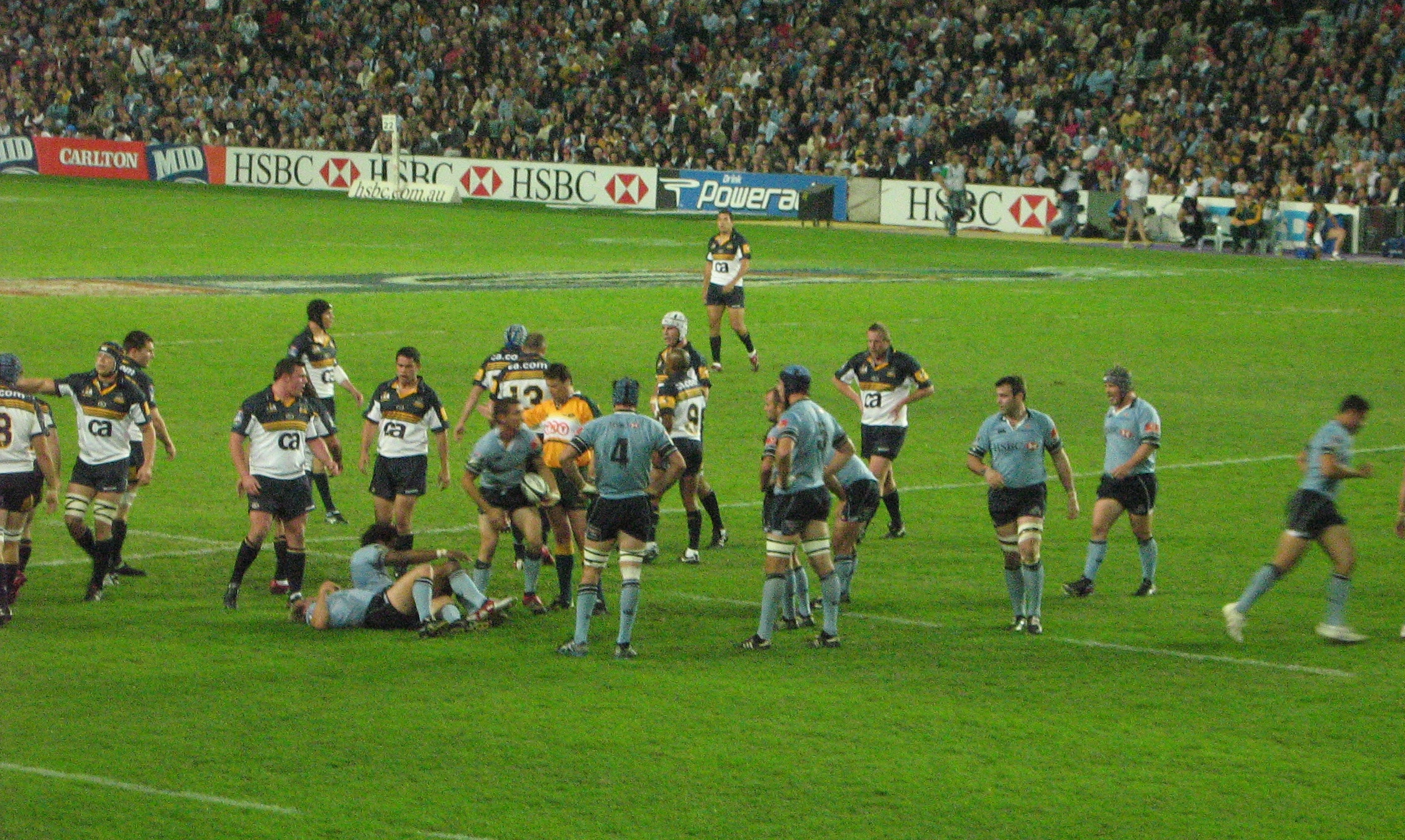 Rugby Union Game, Brumbies (white) vs Waratahs (blue)